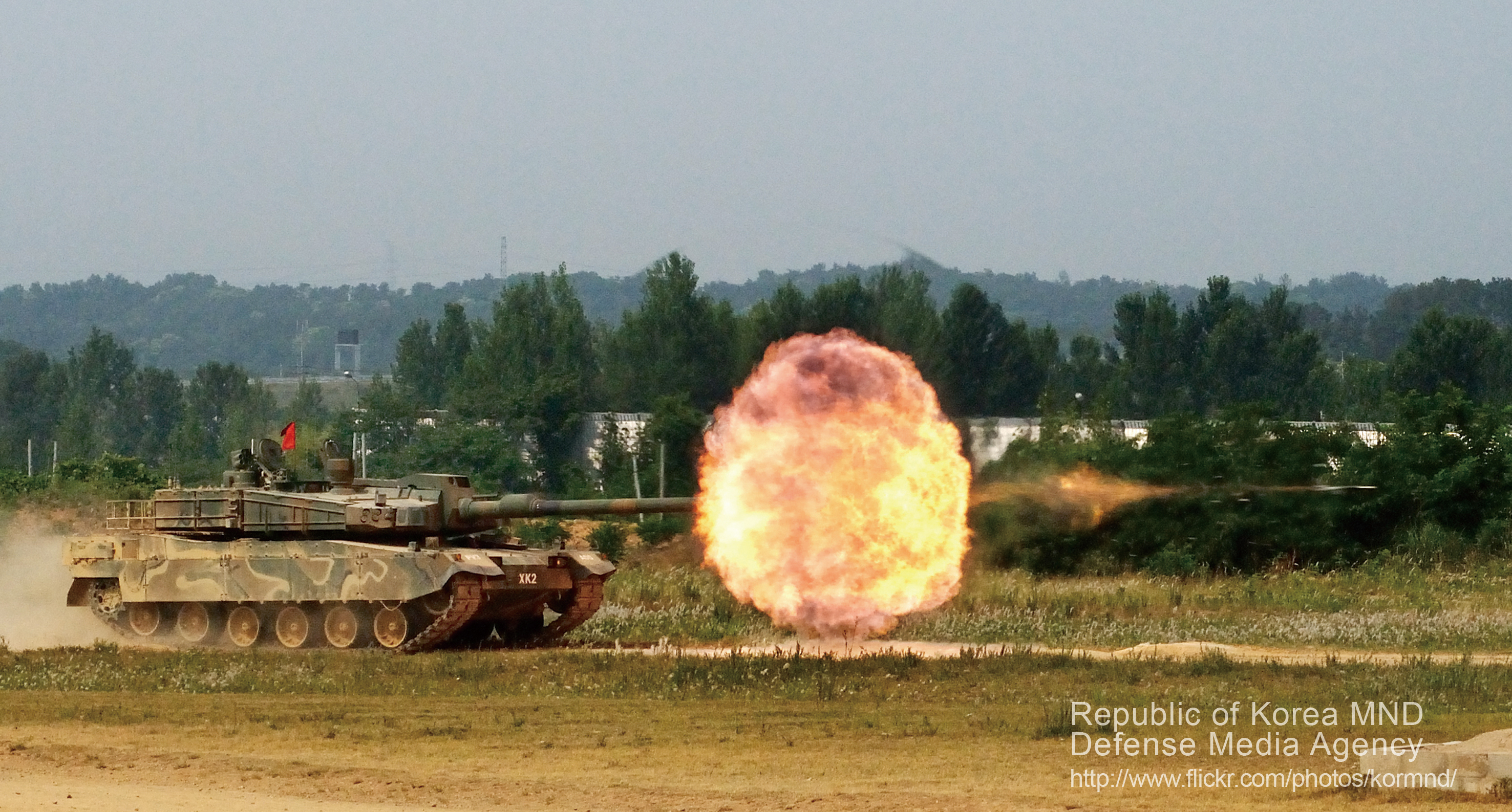 2010 국방화보 Rep. of Korea, Defense Photo Magazine K - 2 전차(흑표) K-2 tank(Heugpyo)